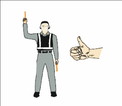 MARSHALLING SIGNALS from a signalman/marshaller to an aircraft / STANDARD EMERGENCY HAND SIGNALS. Description: "Affirmative/all clear". Raise right arm to head level with wand pointing up or display hand with ‘thumbs up’; left arm remains at side by knee.